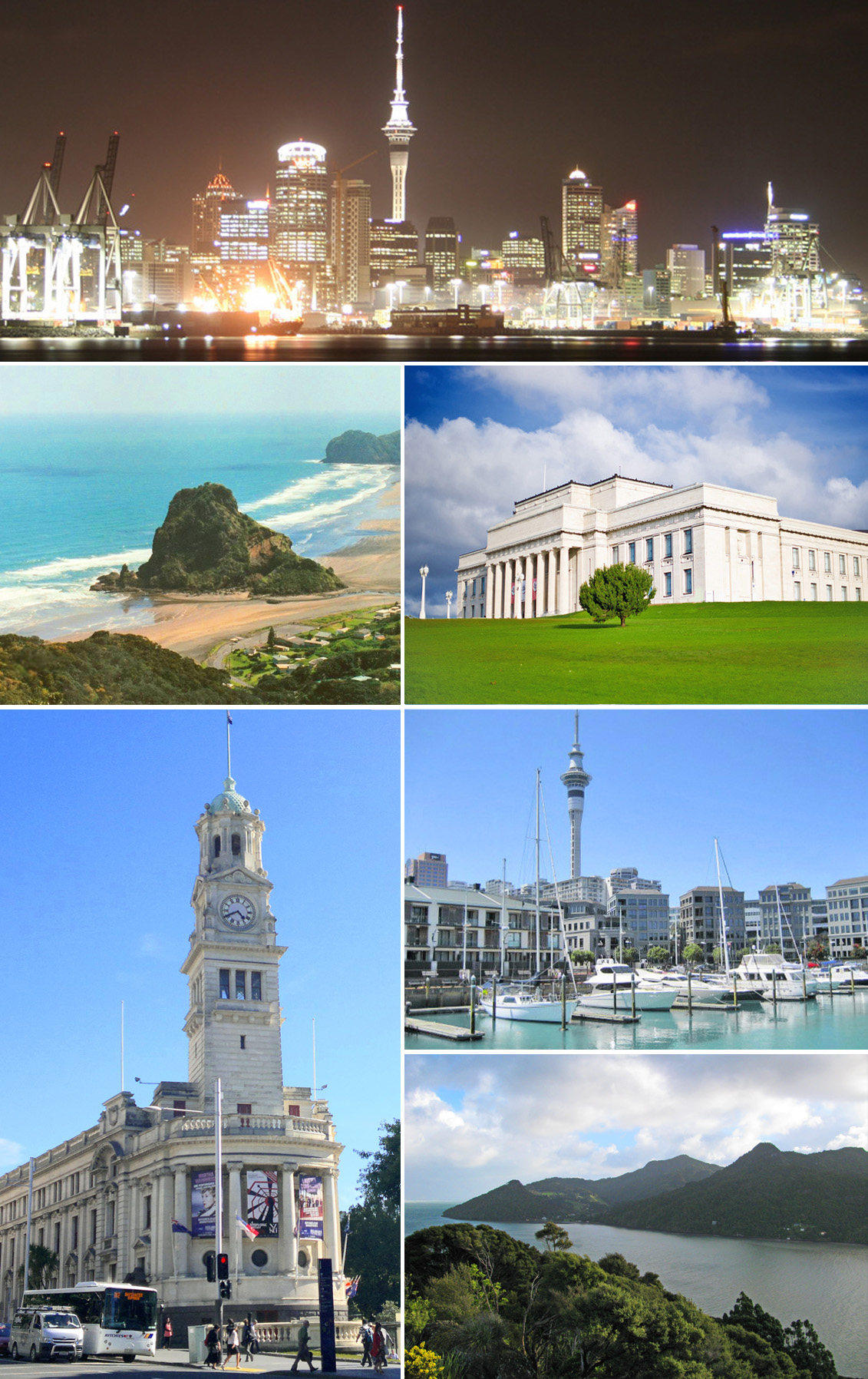 Montage of photos from the Auckland metropolitan area. -Top: Downtown Auckland (Aukland night.jpg from Wikimedia Commons) -Upper-left: Piha (derivative of photo from Flickr user Sids1) -Lower-left: Auckland Town Hall (own work) -Upper-right: Auckland Museum (derivative of photo from Flickr user Daniel Ngu -Centre-right: Viaduct Harbour (own work) -Lower-right: Waitakere Ranges (own work)